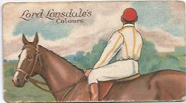 The image is from a cigarette card issued by Anstie Ltd of Devises, England in 1922 depicted the racing colours of the 5th Earl Lonsdale.